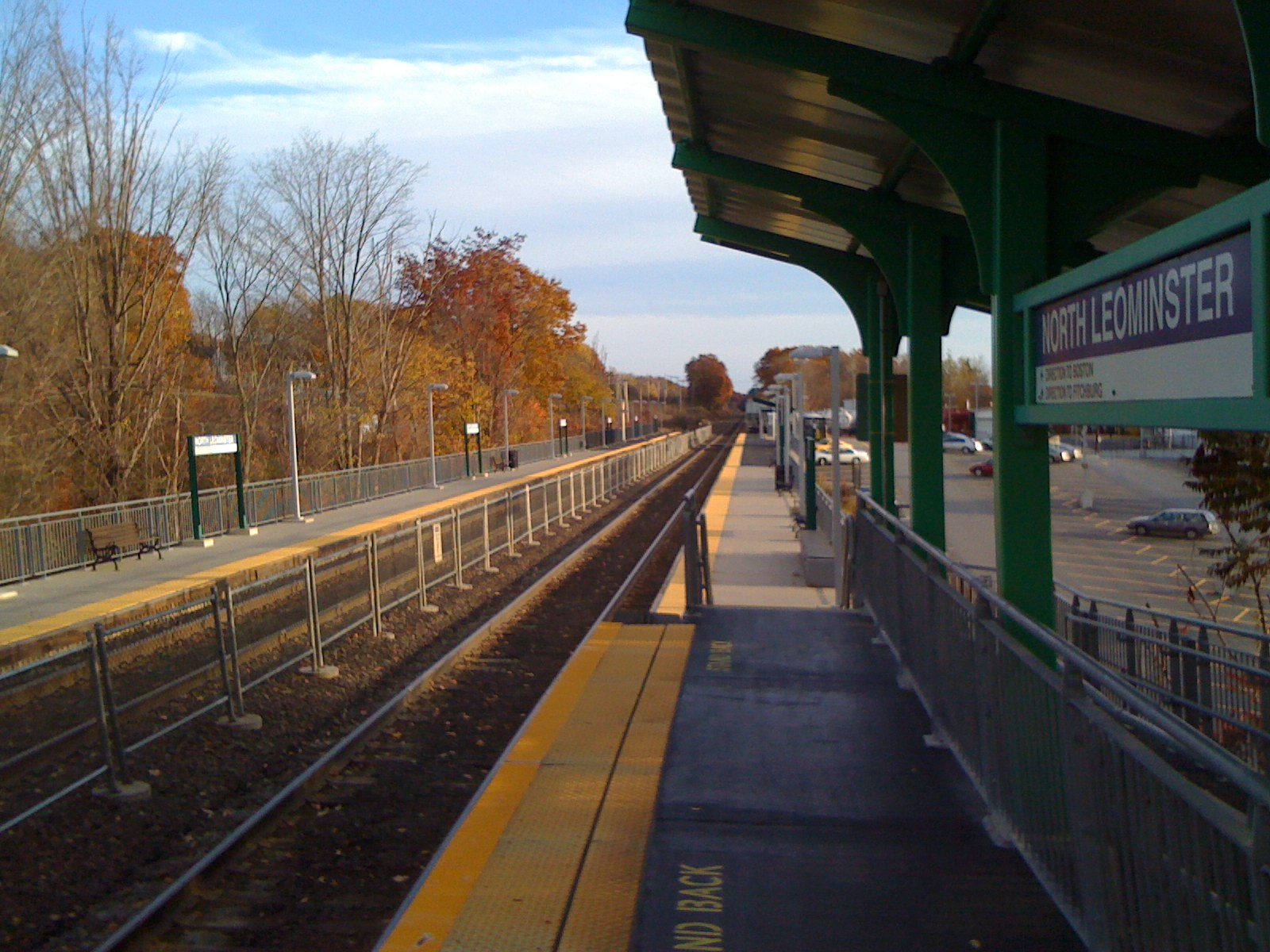 Looking inbound at the platforms at North Leominster station